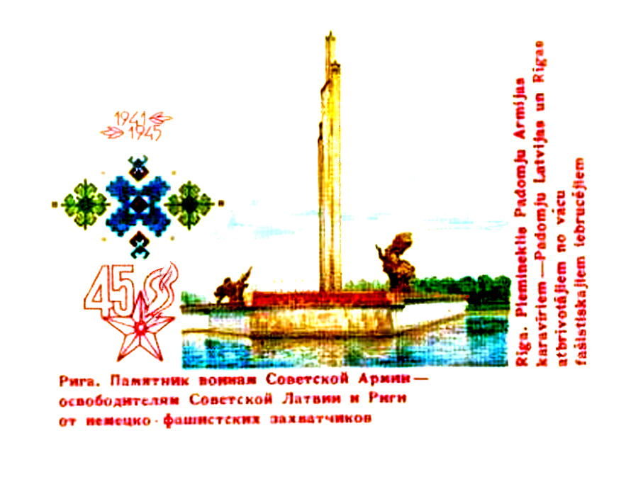 Postal cover of the Soviet Union. Victory Monument (Riga).